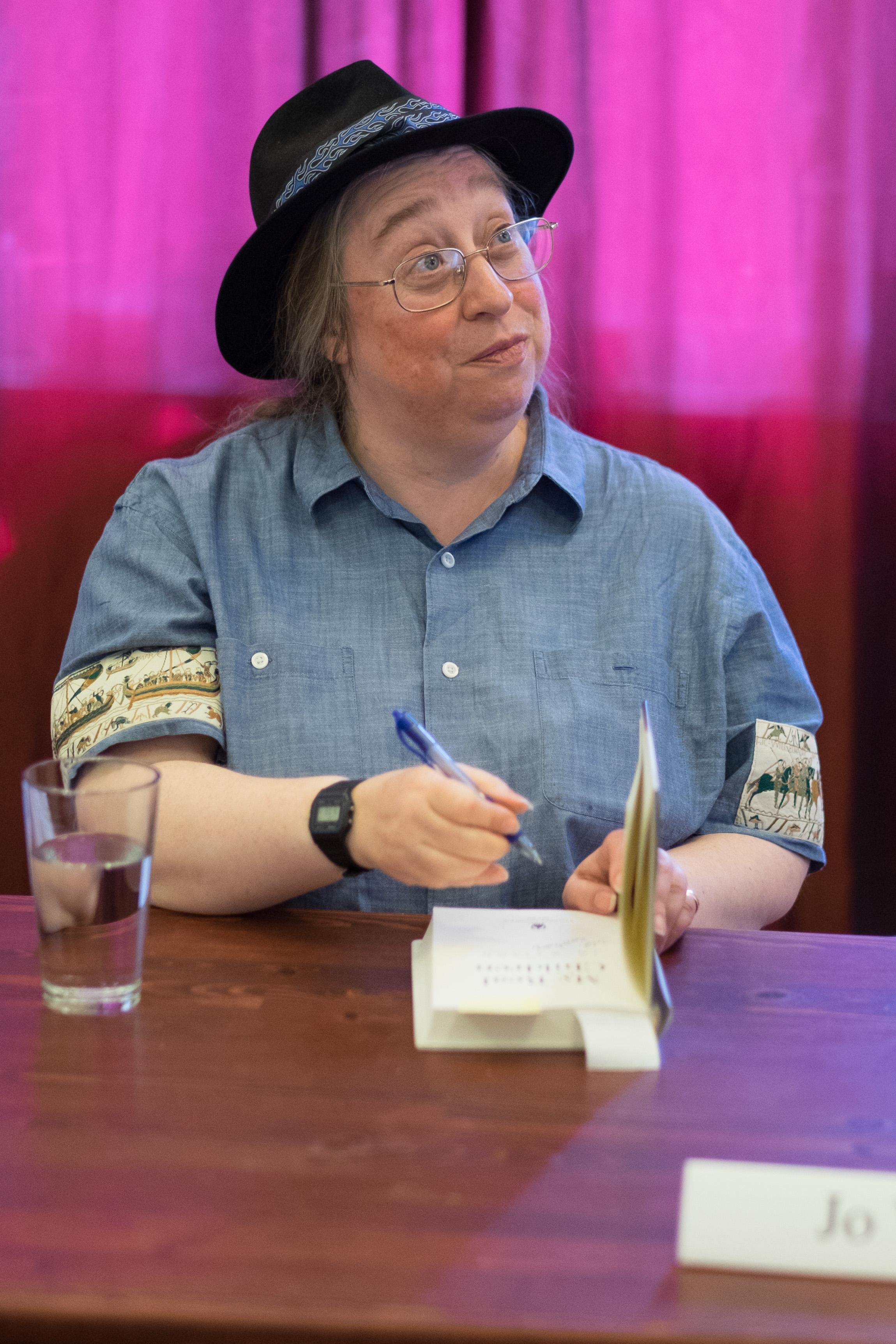 Author Jo Walton at a book signing event